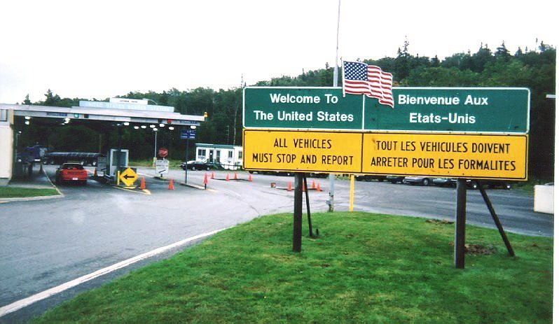 Jackman, ME port of entry